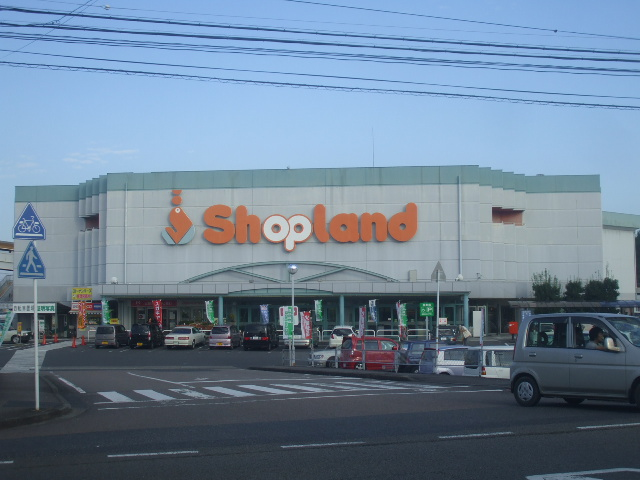 Uny Kani Shop